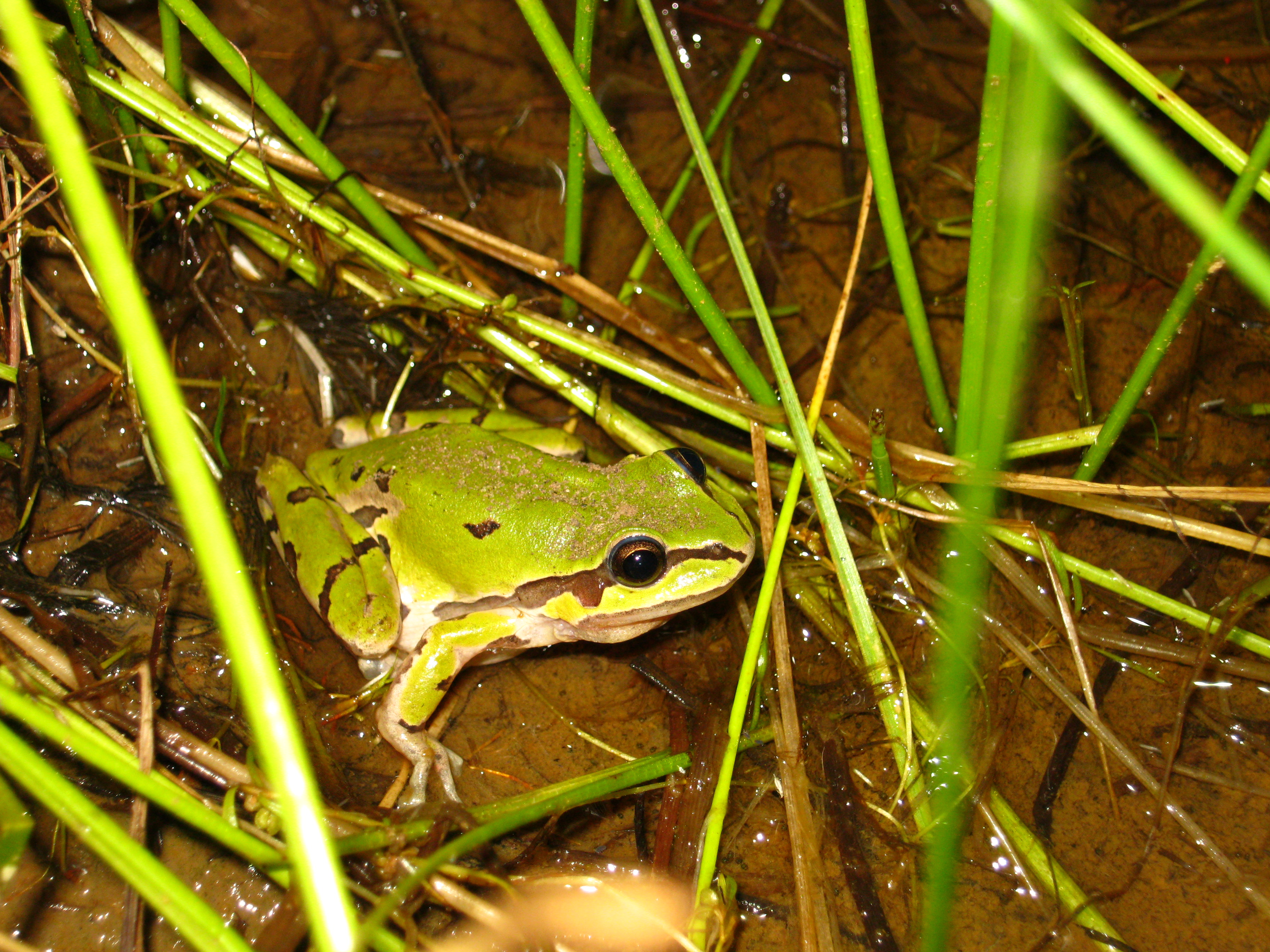 A mountain tree frog (Hyla wrightorum) was observed while wildlife crews were searing for the northern leopard frog (a forest service sensitive species). Both species can be found in the same habitat. Photo taken July 13, 2010. Credit: USDA Forest Service, Coconino National Forest